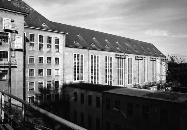 Ardnacrusha hydroelectric power station. On the Shannon near Limerick and once the largest of its kind. We turned up one early evening and asked nicely if we could have a look. The staff were most accommodating.